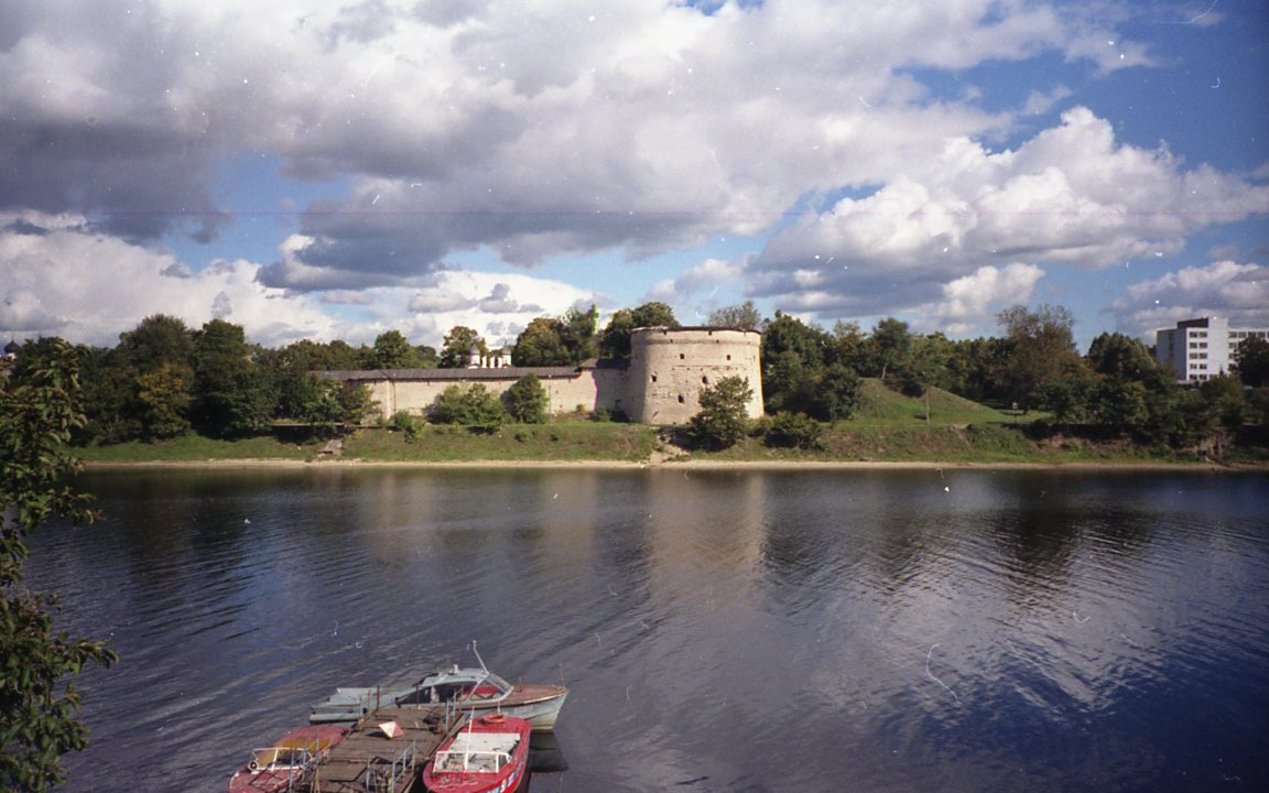 Pskov Pokrovskaja bashnja 1997